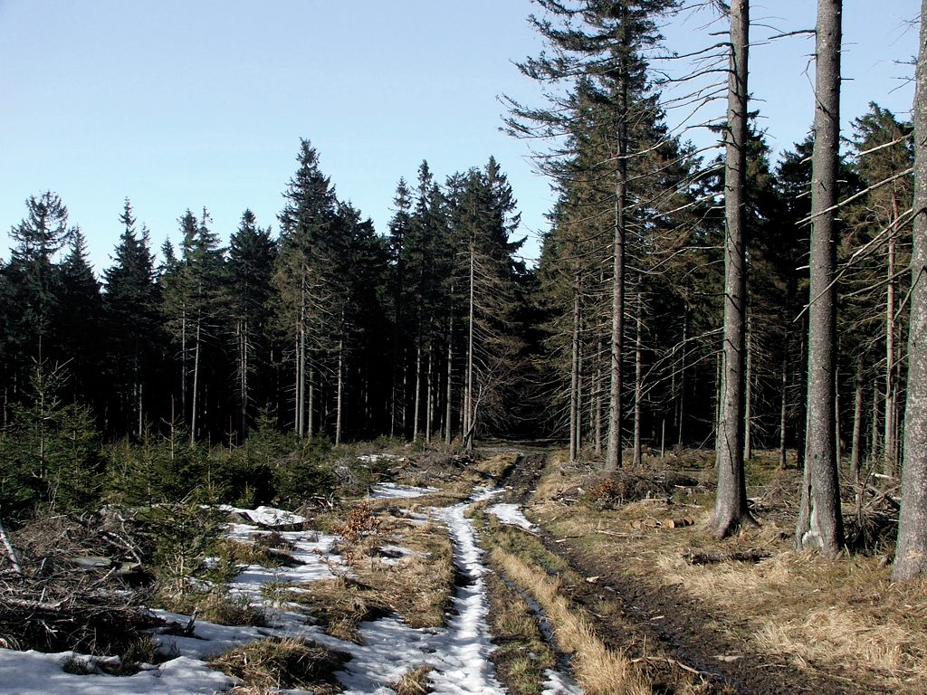 A forest on Rykowisko (mountain in Masyw Śnieżnika, Eastern Sudetes, Poland).